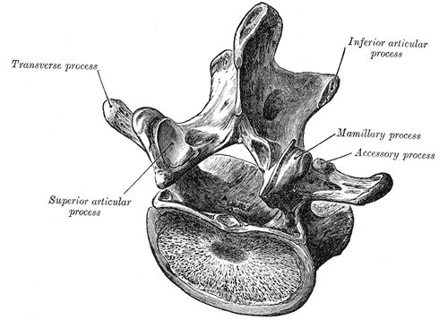 A lumbar vertebra from above and behind.